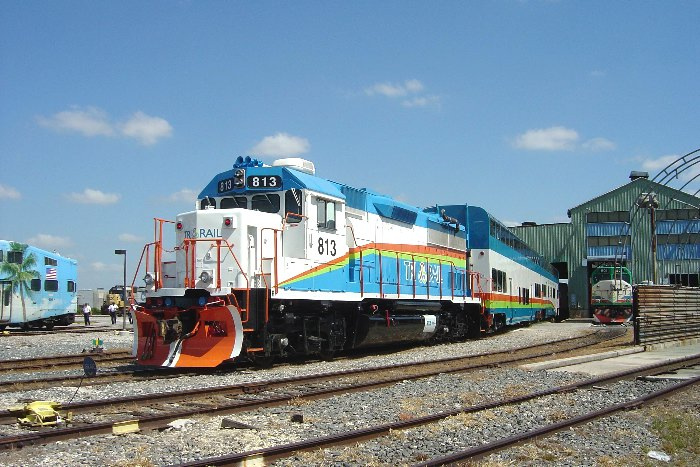 A Tri-Rail locamotive in the Hialeah Railyard.